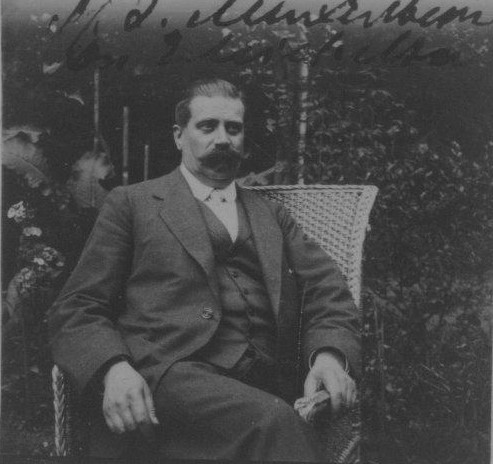 Eduard Robert Michelson